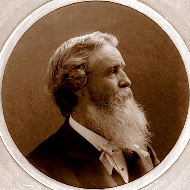 Thomas Hill (1829-1908), American artist, famous for his paintings of Yosemite National Park.